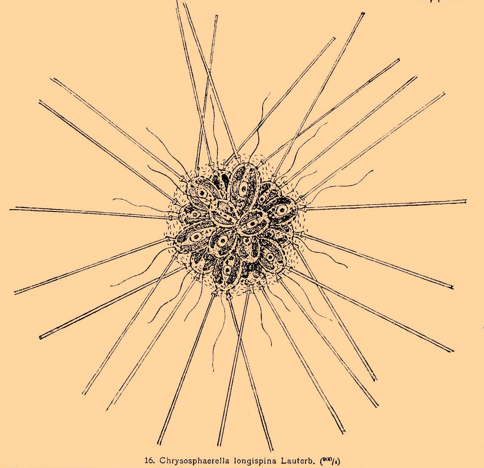 ХРИЗОМОНАДЫ. II. 18. Chlorodesmis hispida Phill. From the Brockhaus and Efron Encyclopedic Dictionary (1890-1907)